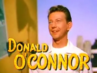 Cropped screenshot of Donald O'Connor from the trailer for the film I Love Melvin.